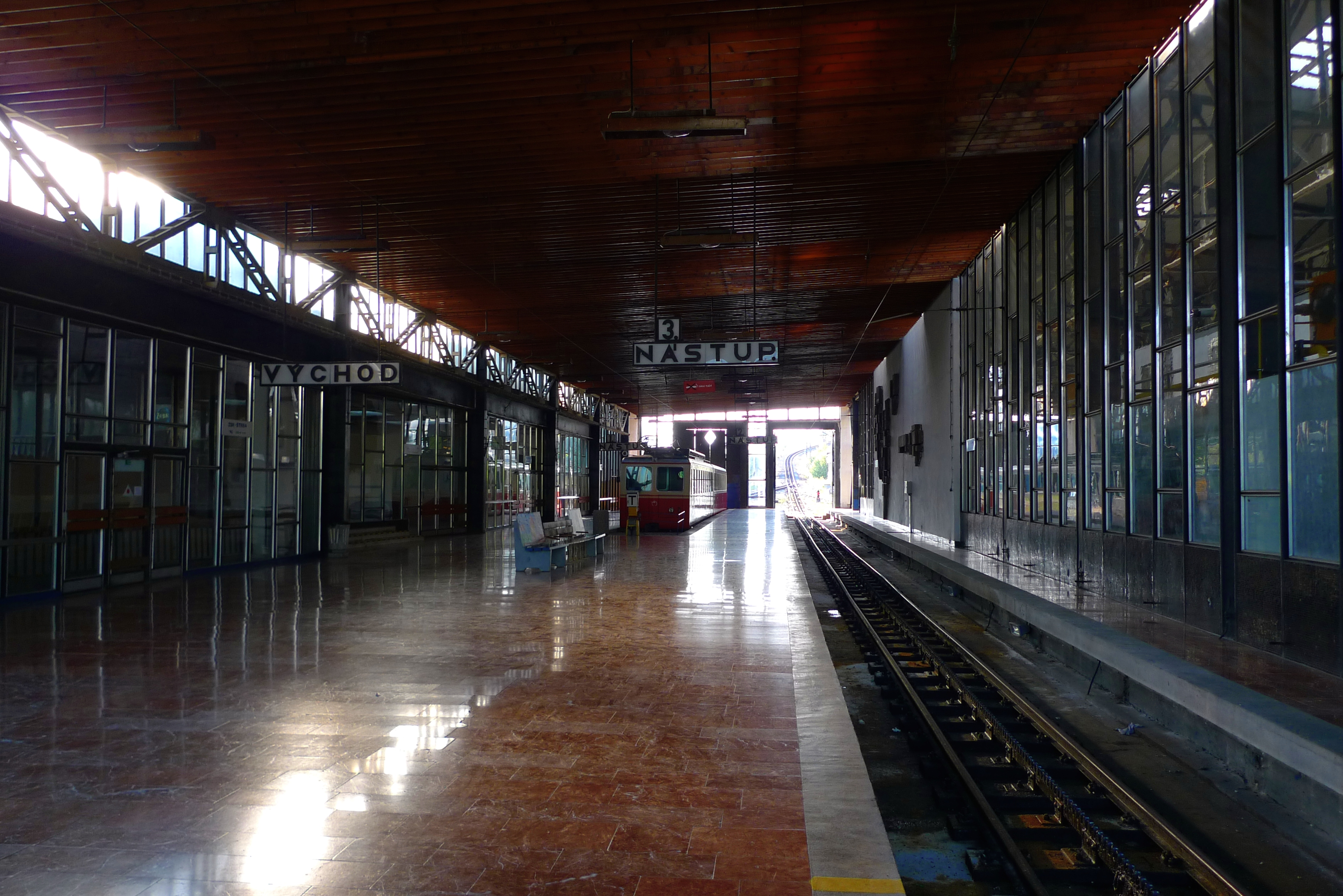 Railway station in Štrba, Slovakia